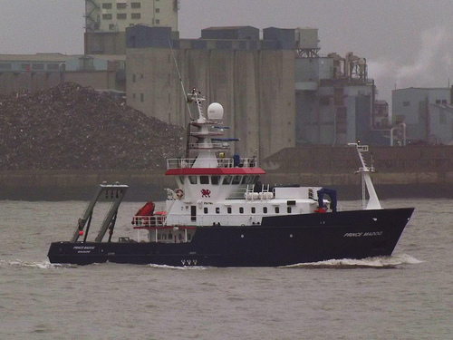 Arrives in on the Mersey, passing the Port of Liverpool dest:Birkenhead